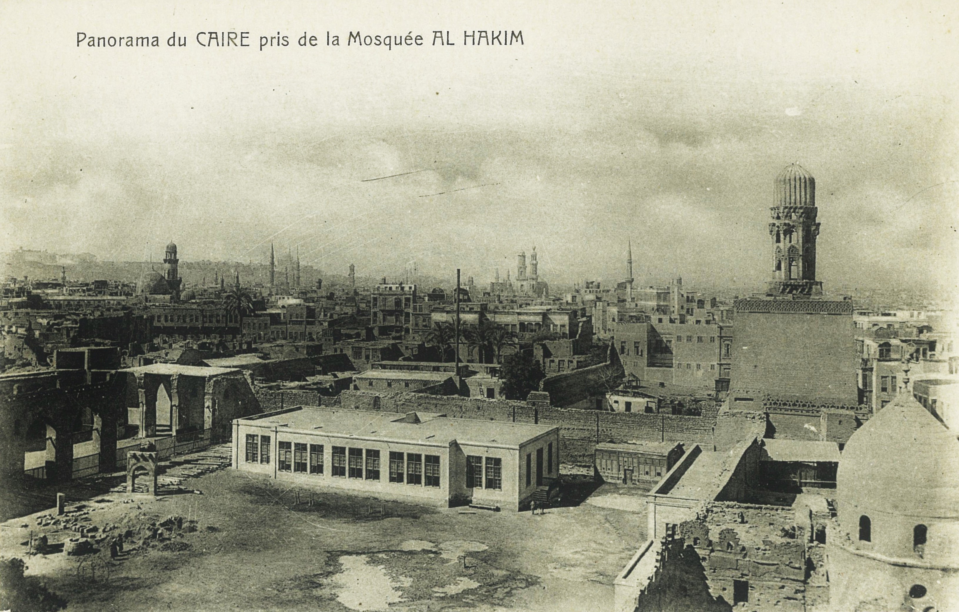 The old building of the Arab Museum in the ruinous mosque of al-Hakim. Postcard c. 1895.